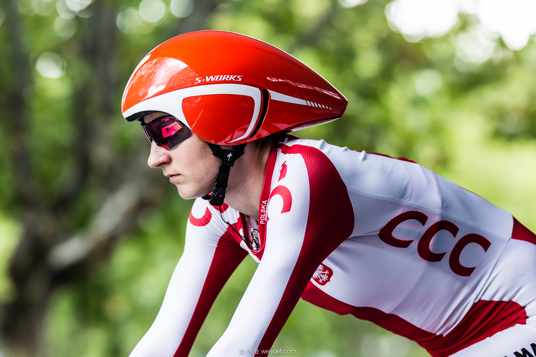 ITT Women's Elite